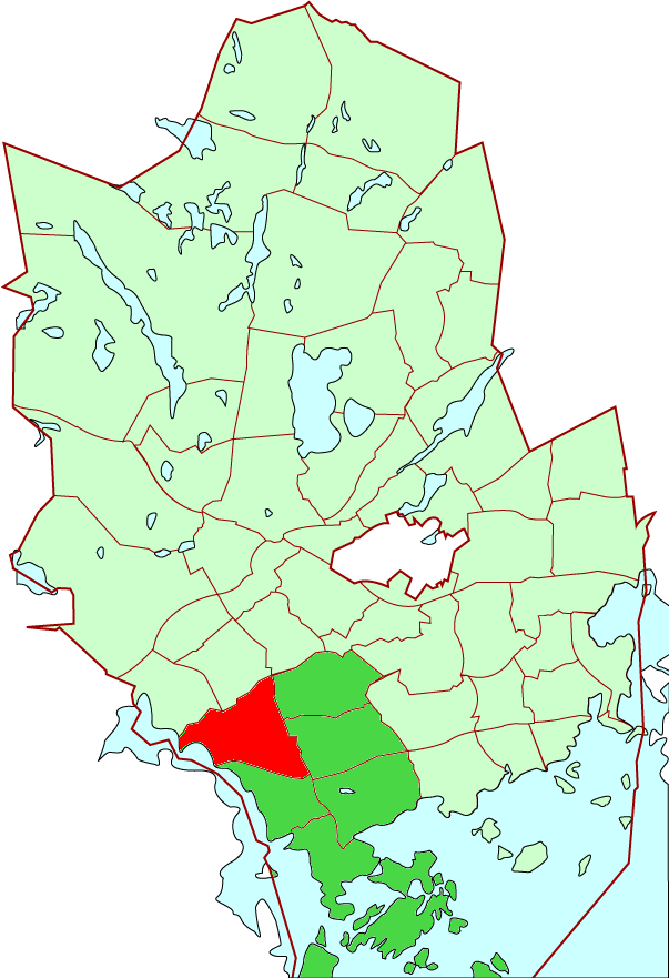 Saunalahti/Bastvik district in Espoo city, Finland